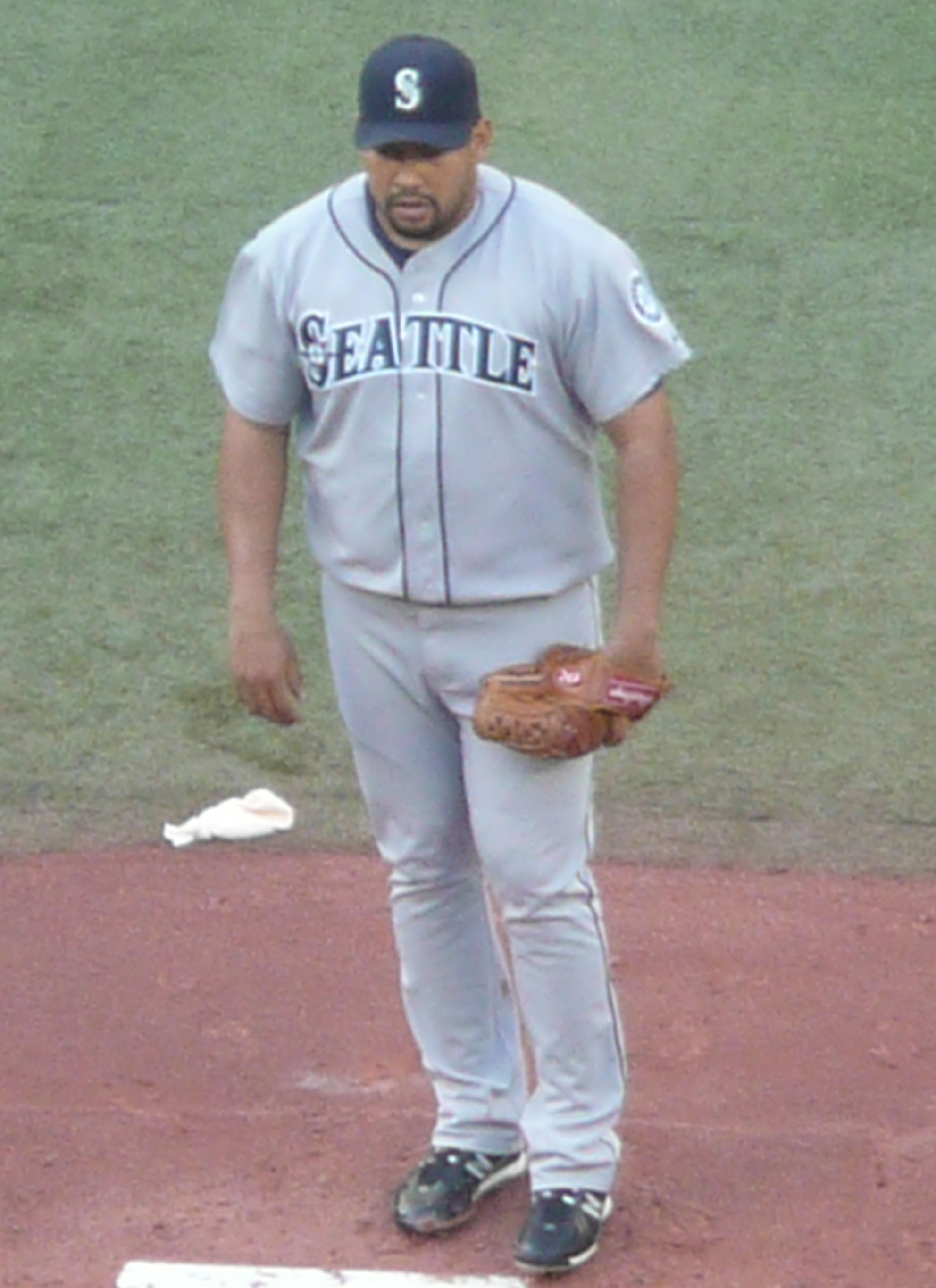 Carlos Silva on the pitcher's mound at Rogers Centre, Toronto, Canada